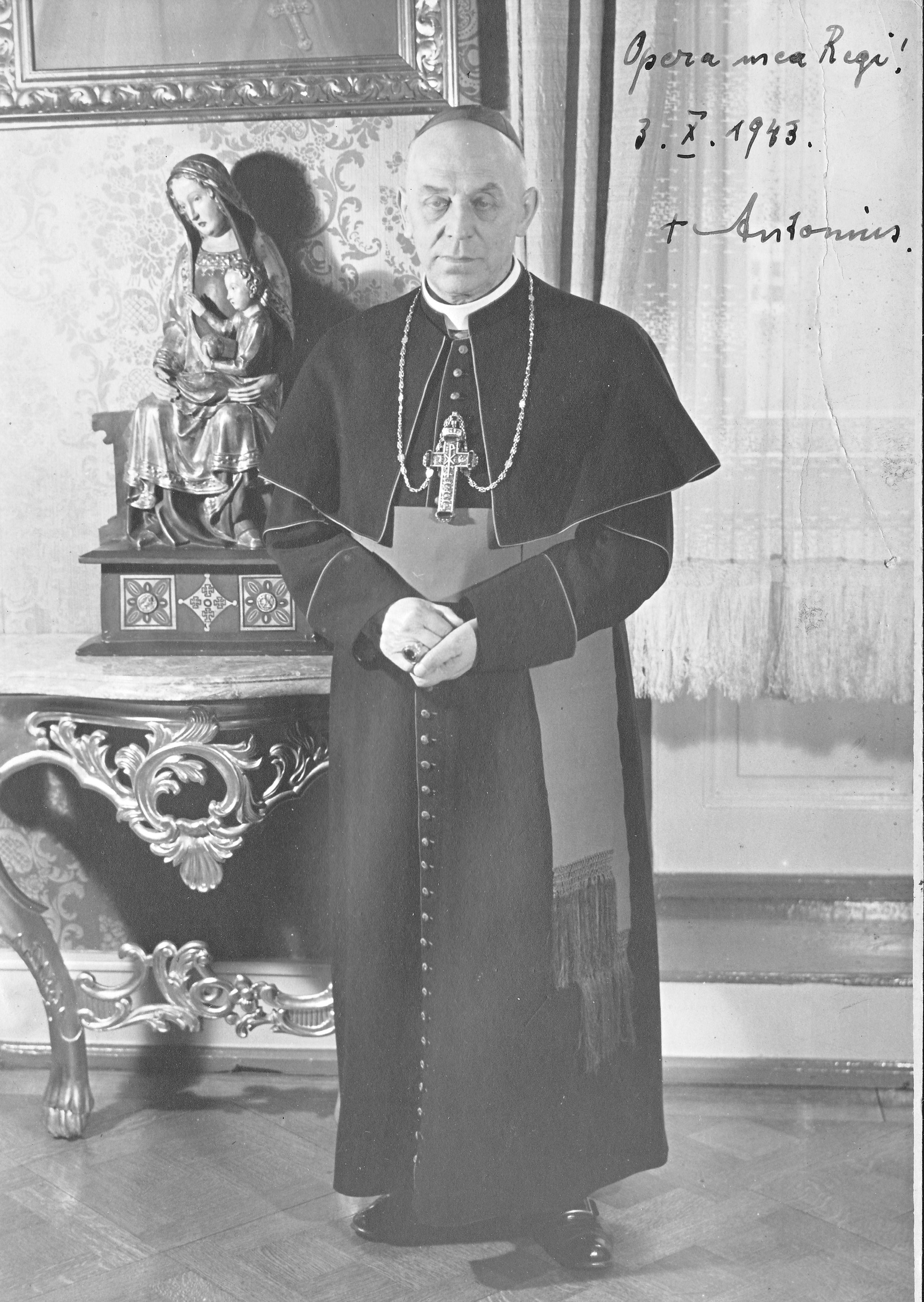 Bishop from the diocese of Limburg, Antonius Hilfrich, 1943